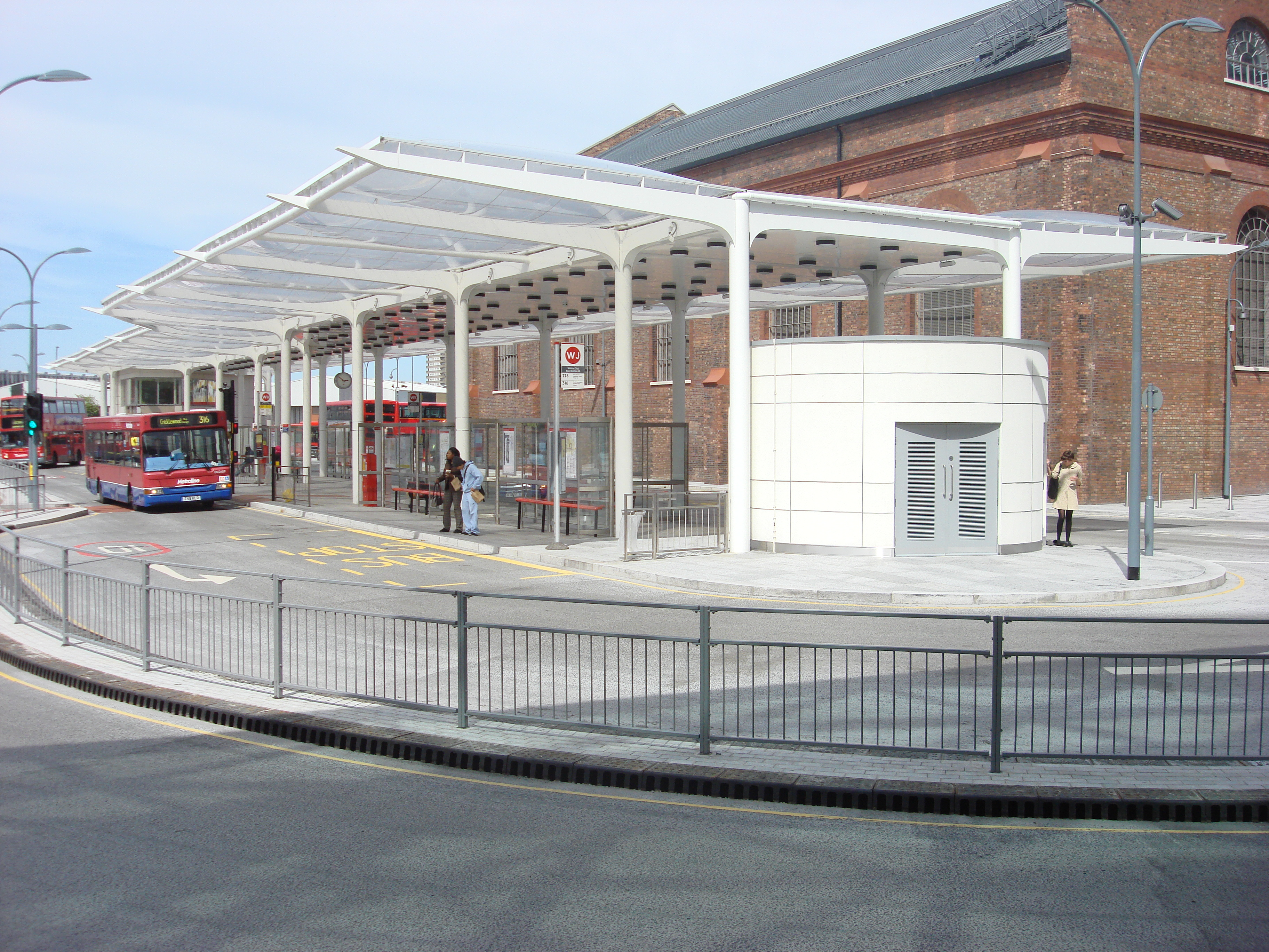 White City bus station